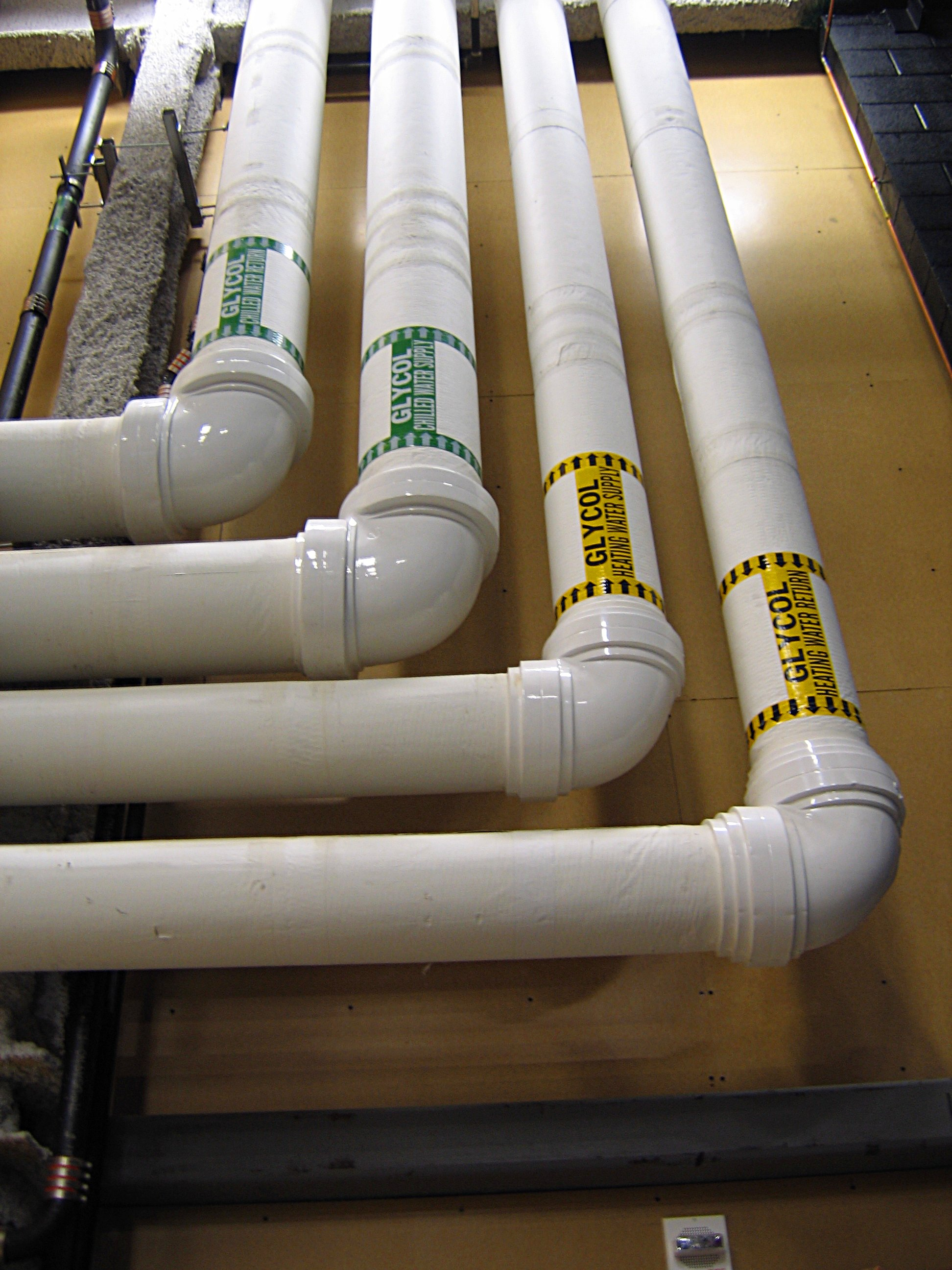 PVC pipes. Taken backstage at the new Guthrie theatre, Minneapolis.